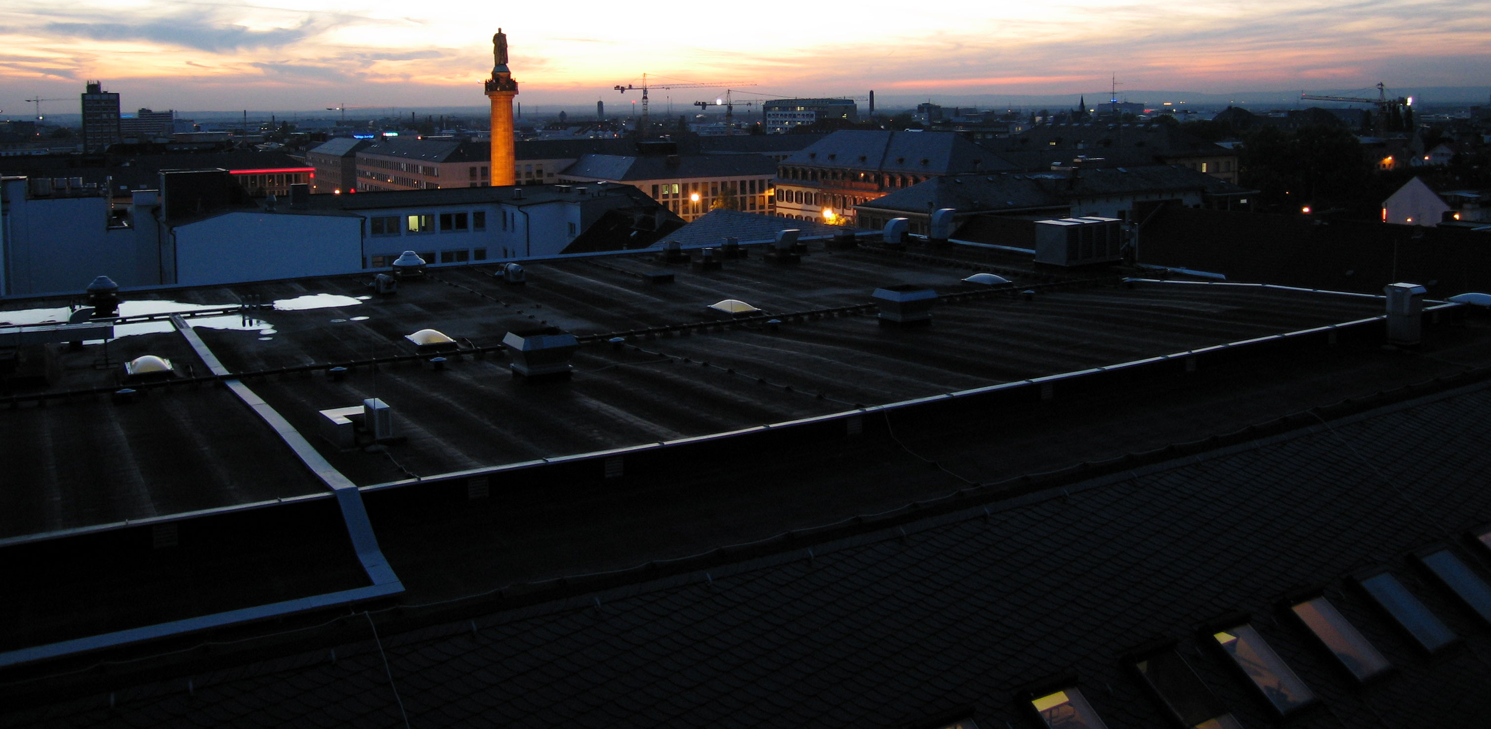 Darmstadt at night with Ludwigsmonument